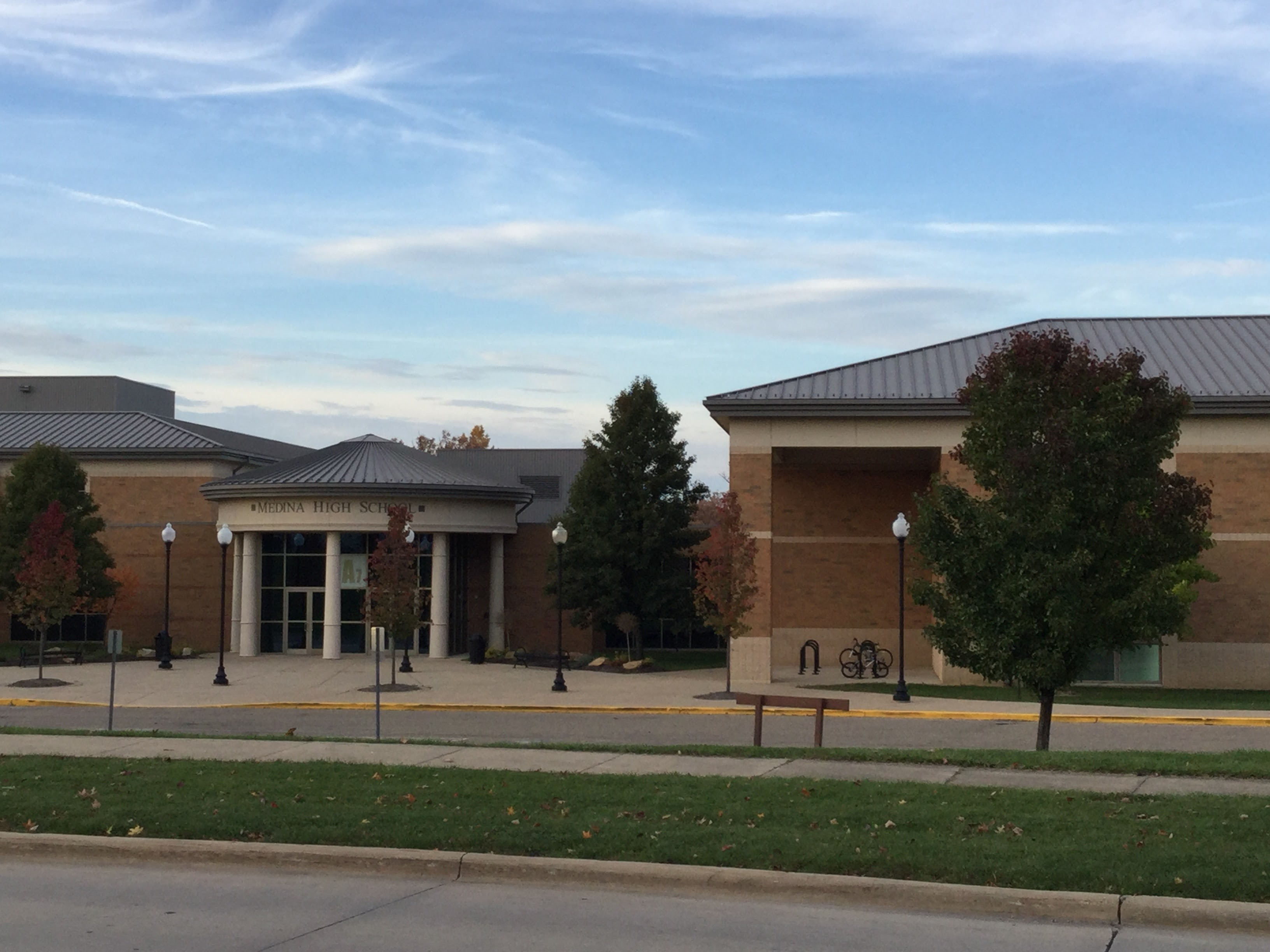 The front entrance of Medina High School as viewed across the street.